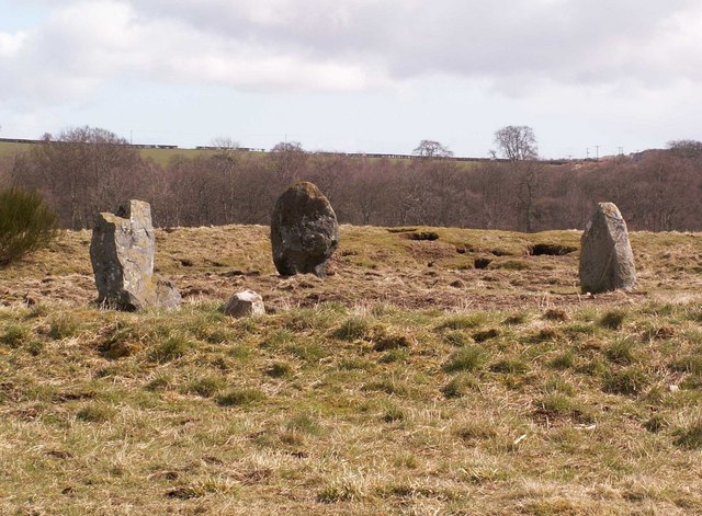 Small circle. Just behind the BP garage when you enter Inverurie